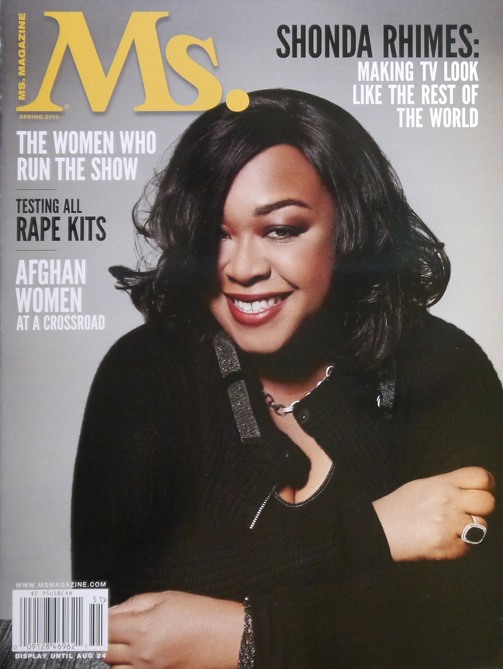 Ms. magazine, Spring 2015 issue with Shonda Rhimes